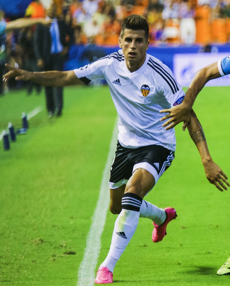 João Cancelo